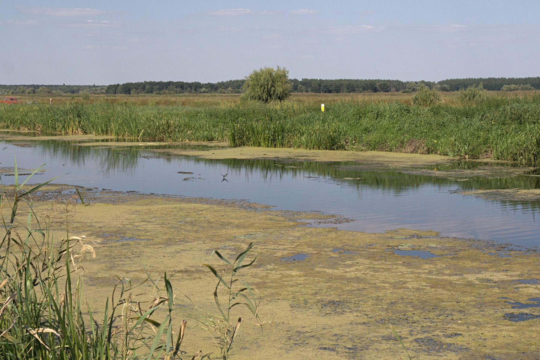 Trubizh River near the village Borschiv — stream bed.